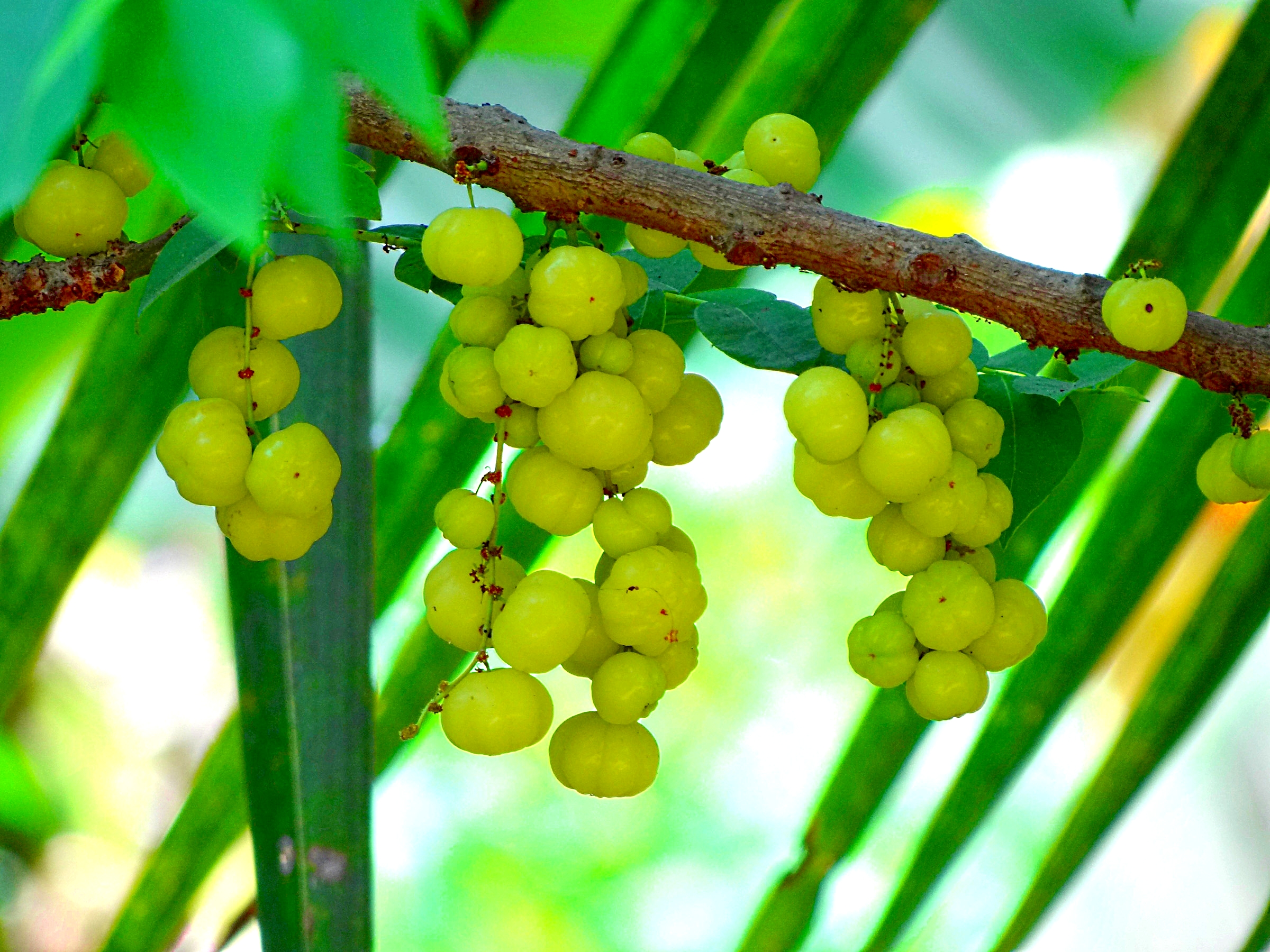 Indian Gooseberry, more commonly known as Amla (Hindi).